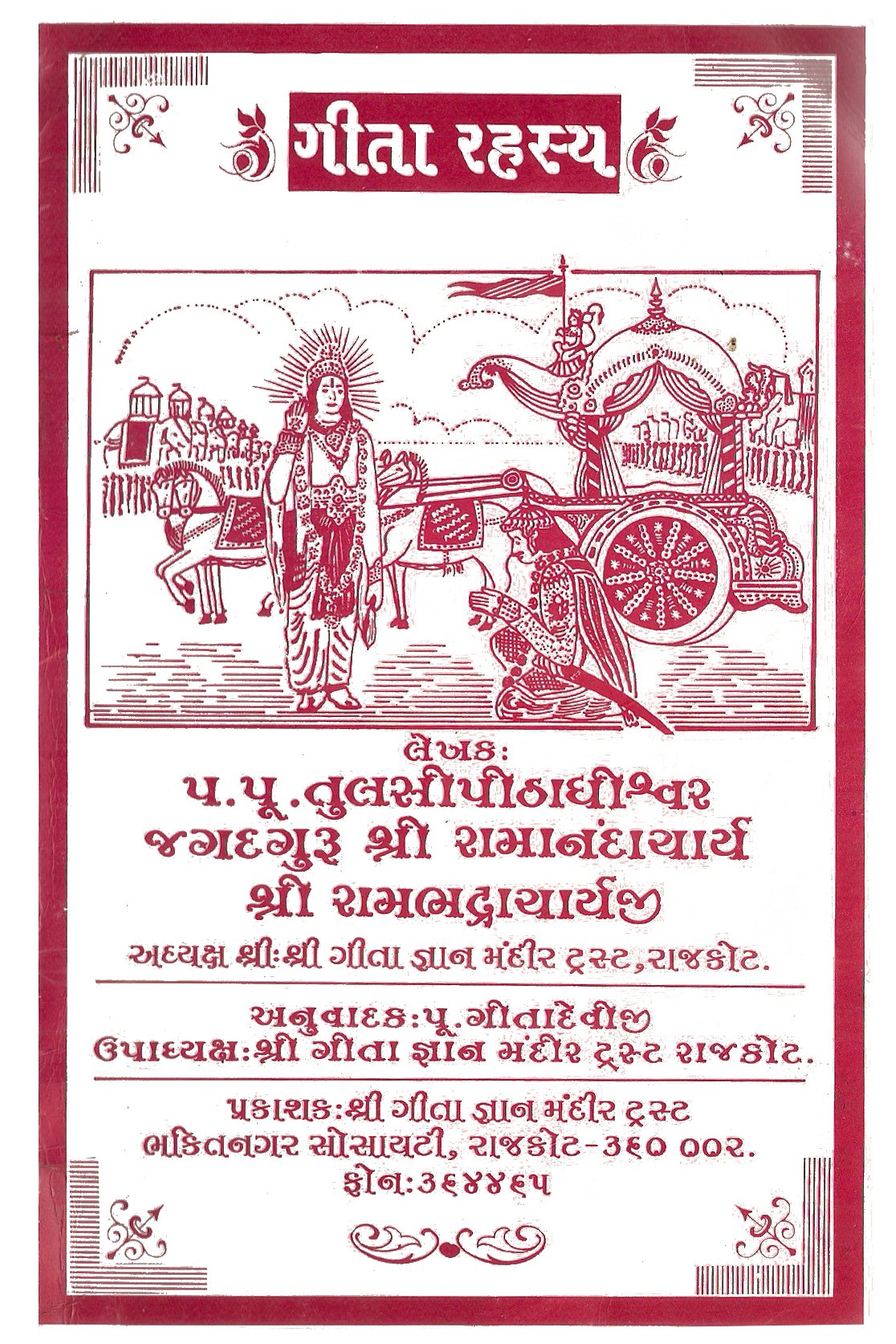 Cover page of Gita Rahasya